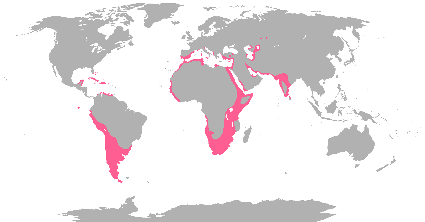 Map showing the range of the Flamingo.